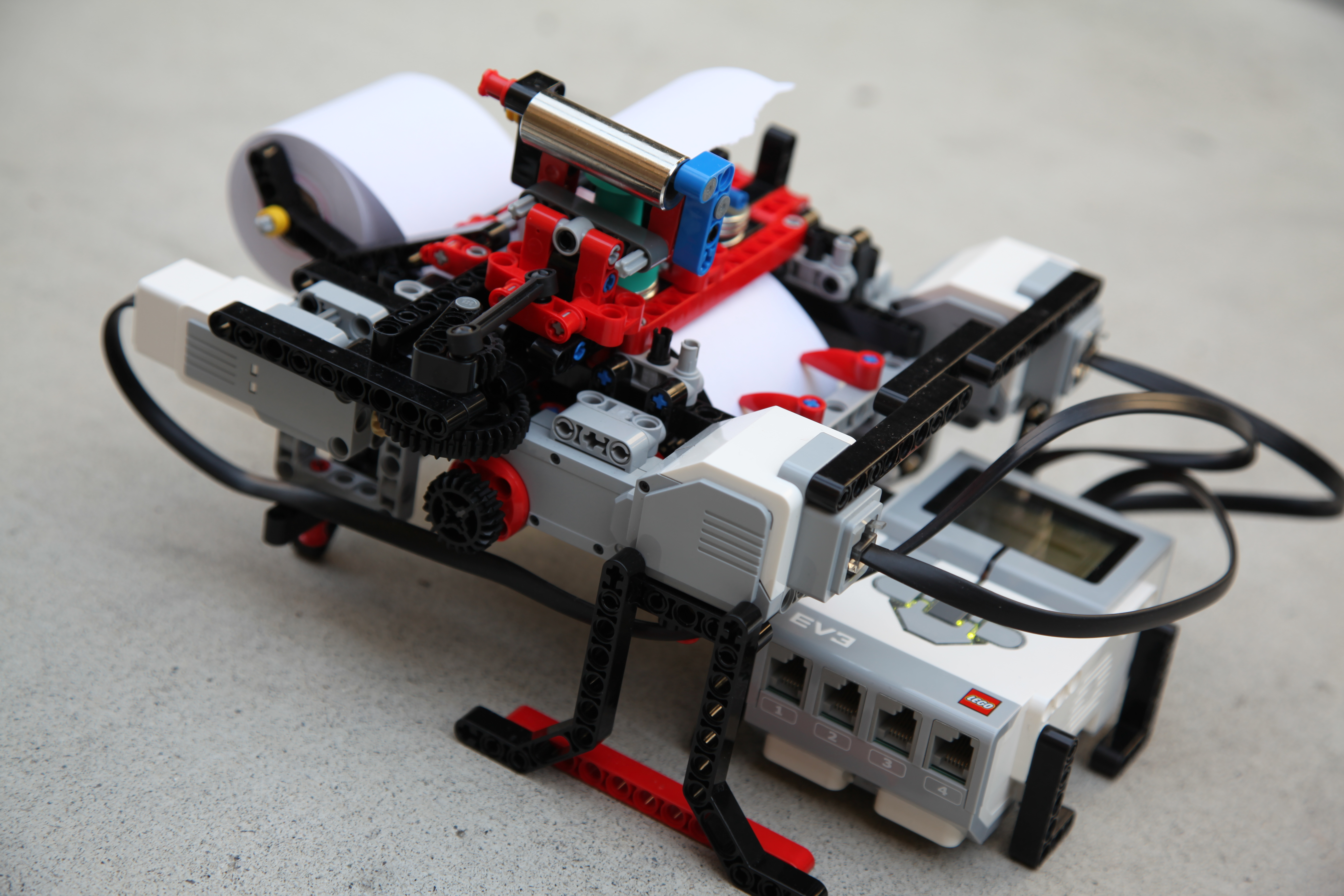 This is a picture of the Braigo - Braille Printer with Lego Mindstorms EV3